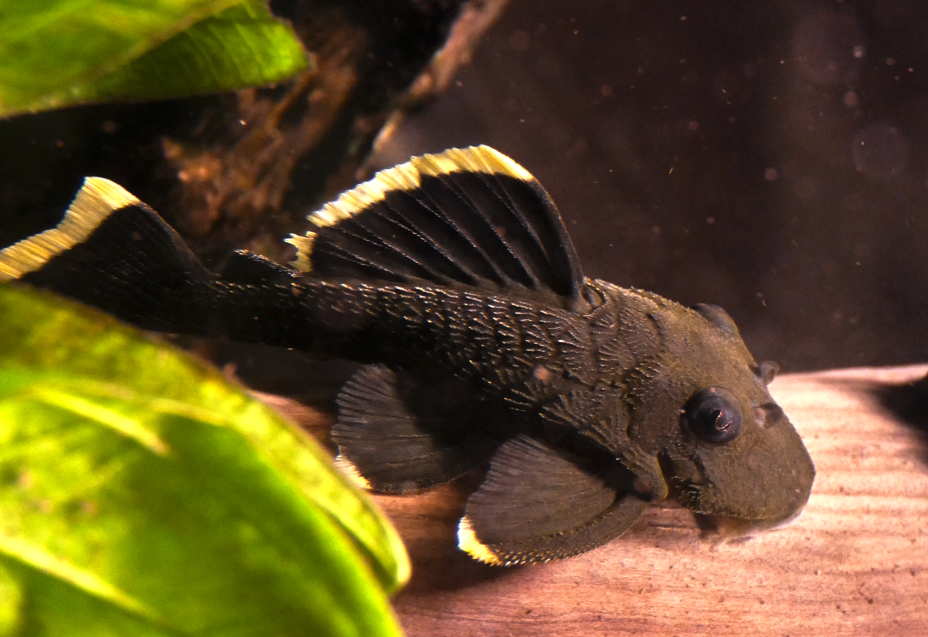 Magnum Orangeseam Pleco